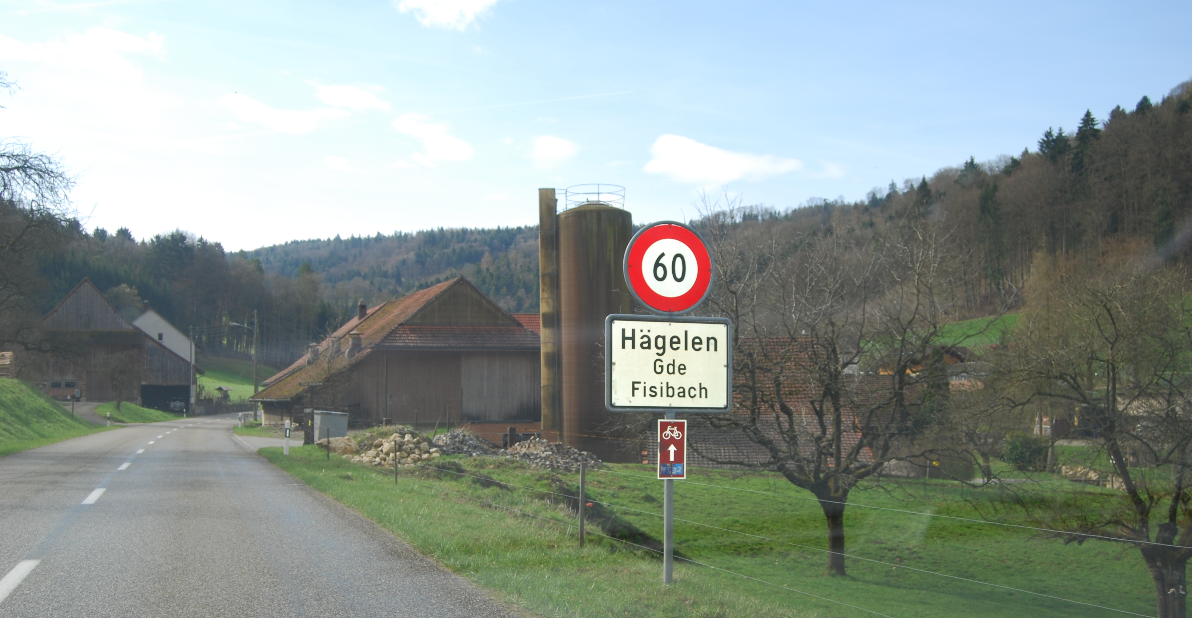 Hägelen, municipality of Fisibach, canton of Aargau, SwitzerlandEsperanto: Hägelen, komunumo Fisibach, Kantono Argovio, Svislando